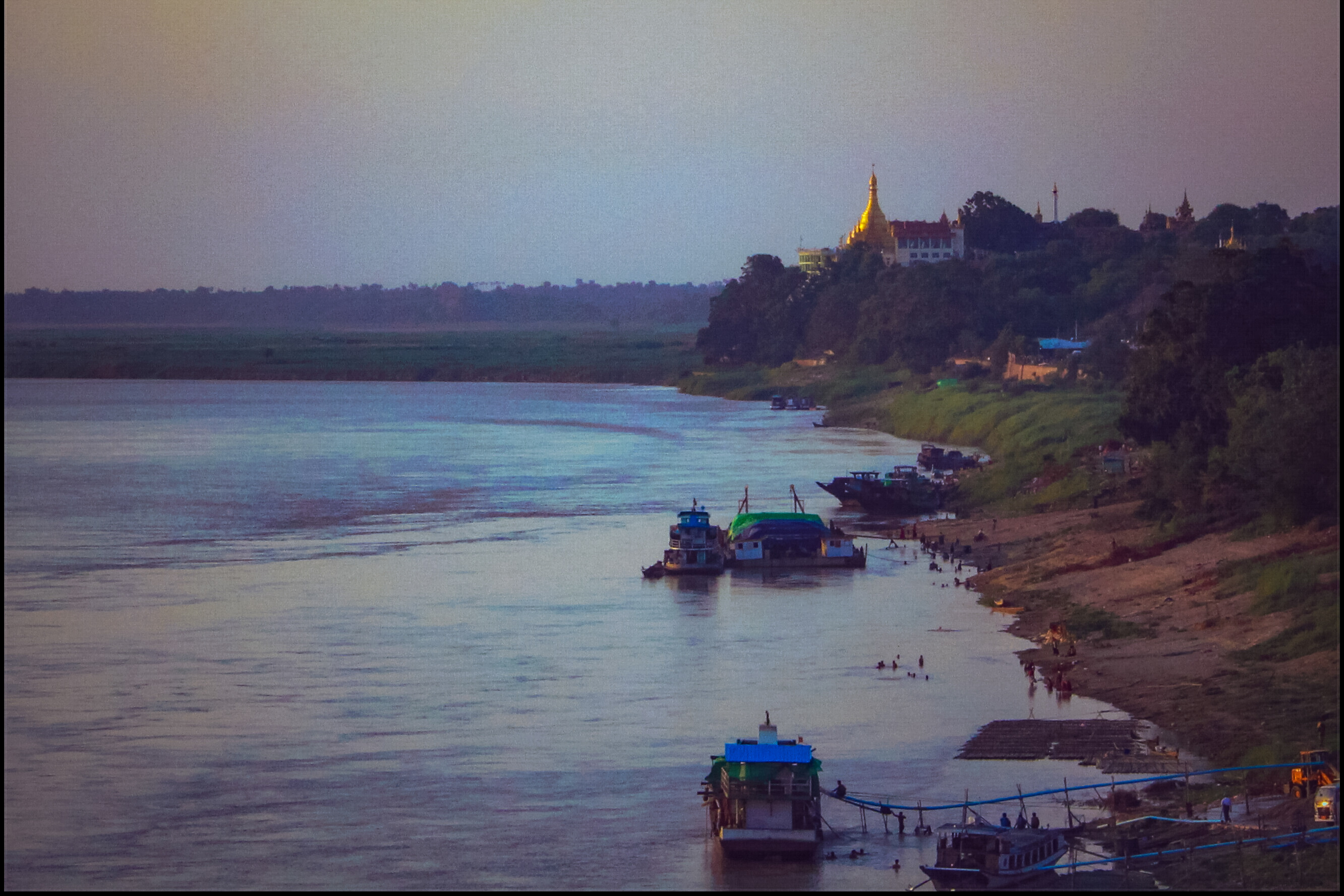 The Myathalun Pagoda, located at the north of the city, is the landmark of Magway.